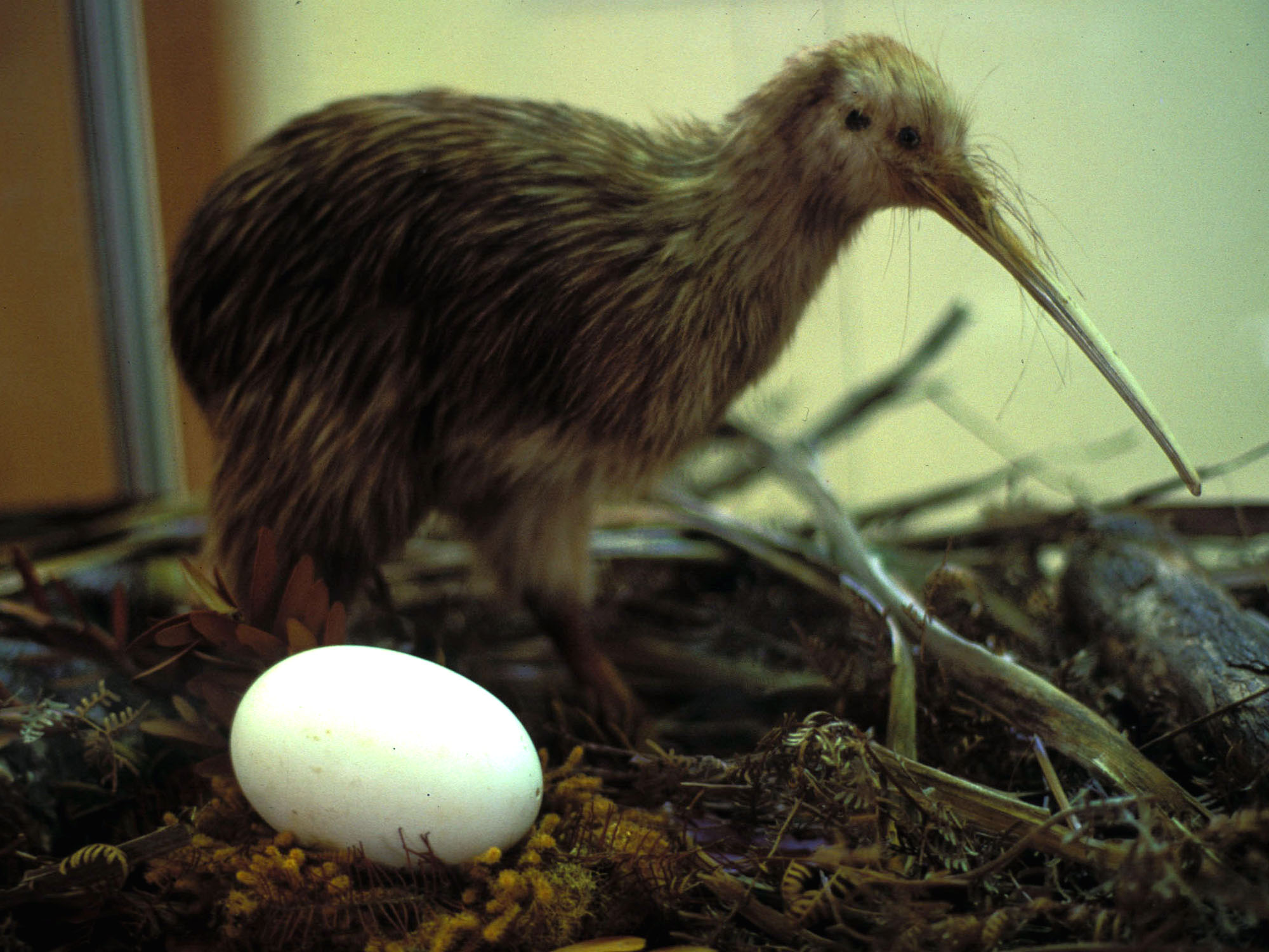 Kiwi with egg in the Kauri Museum, New Zealand